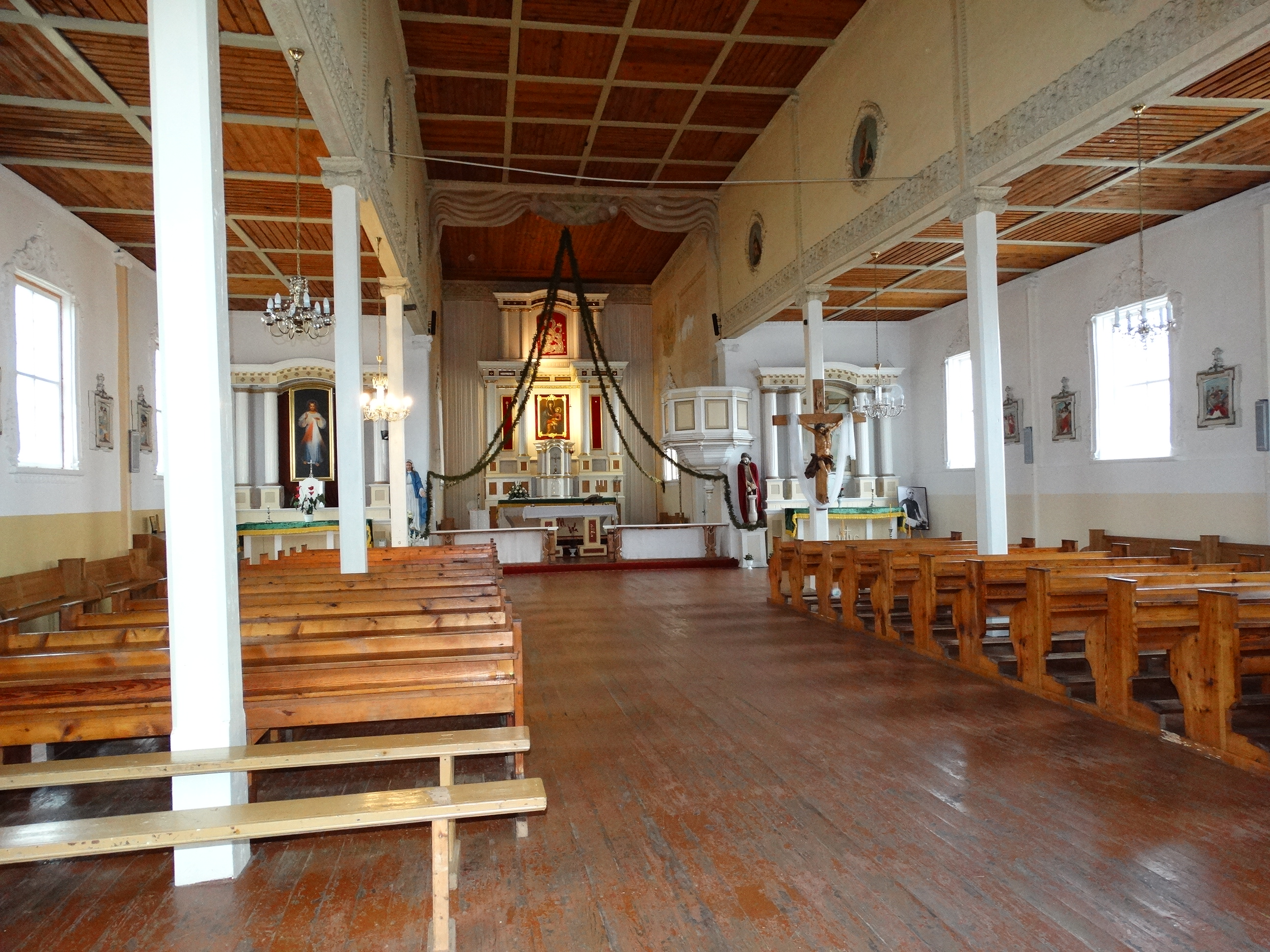 Roman Catholic Church in Paparčiai, Kaišiadorys District, Lithuania